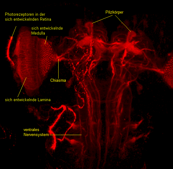 Das sich entwickelnde optische System im 3. Larvenstadium von Drosophila (Genotyp: gmrGAL4-UAS-10xmyr-GFP) zum Imago. Indirekte Immunfluoreszenzmarkierung gegen Fasciclin II. Photorezeptoren, Retina und Lamina sind bereits angelegt. Auch das Chiasma von der Lamina zur Medulla ist zu erkennen. Die Medulla ist jedoch noch nicht zu erkennen, ebenso ist der Lobulakomplex noch nicht vorhanden.